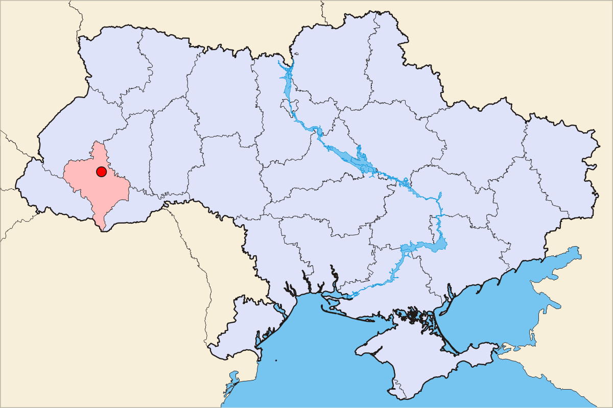 Description = Ivano-Frankivsk geographical position Source = own work, Skluesener Date = 15.01.2006 Author = Skluesener Credits = Colours chosen according to a map of steschke